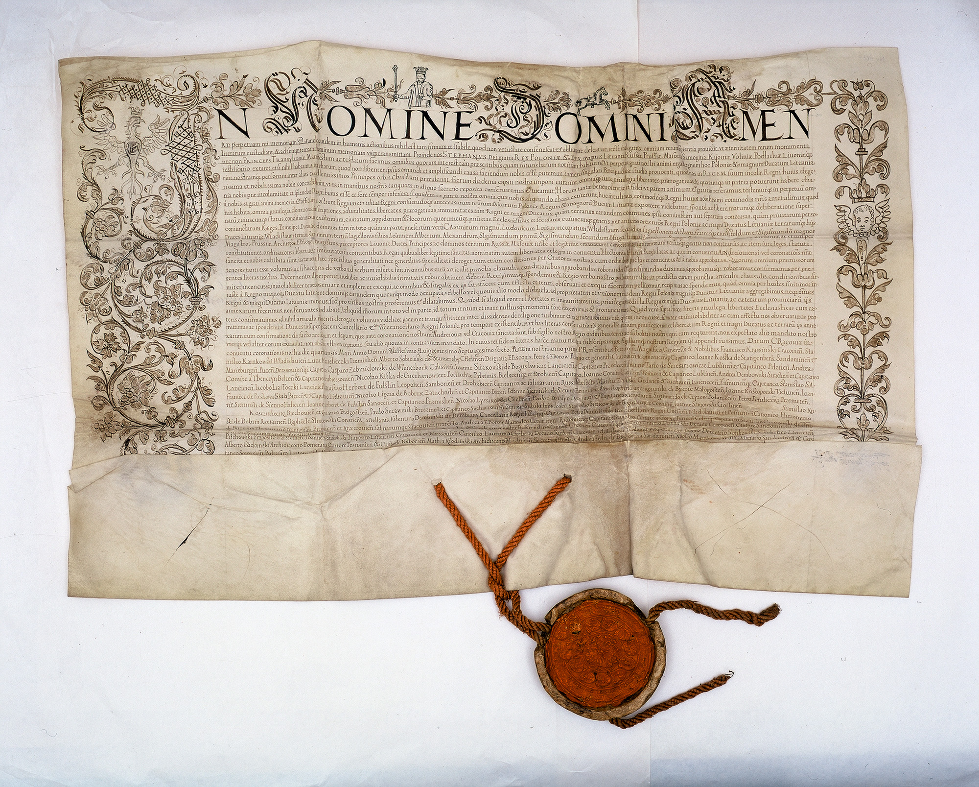 Confirmation by the Polish king Stefan Batory at his coronation (May 4, 1576 in Kraków) of the rights and privileges of the nobility of the Republic. Document with a stamp.